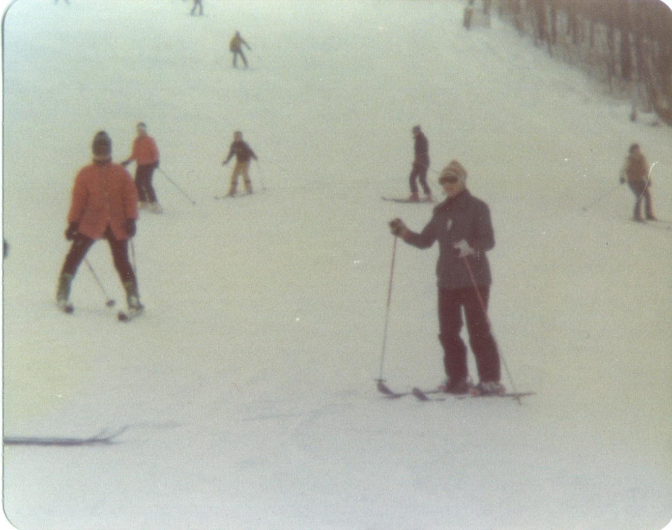 Skiers at Boyne Mountain on Feb. 18, 1978.